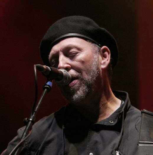 Richard Thompson at Cropredy Festival, 2005